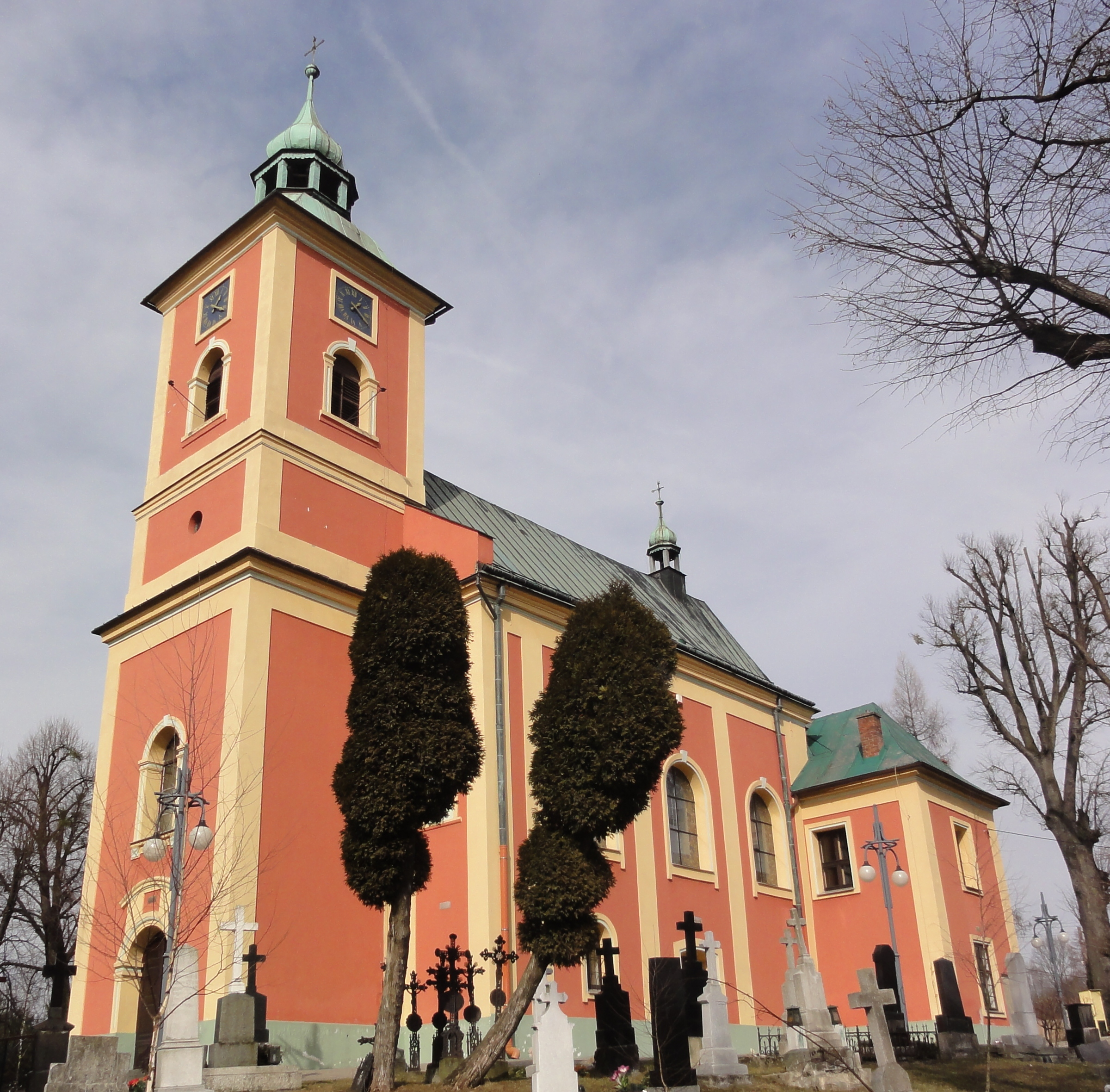 Church of the Birth of Saint Mary in Kończyce Małe